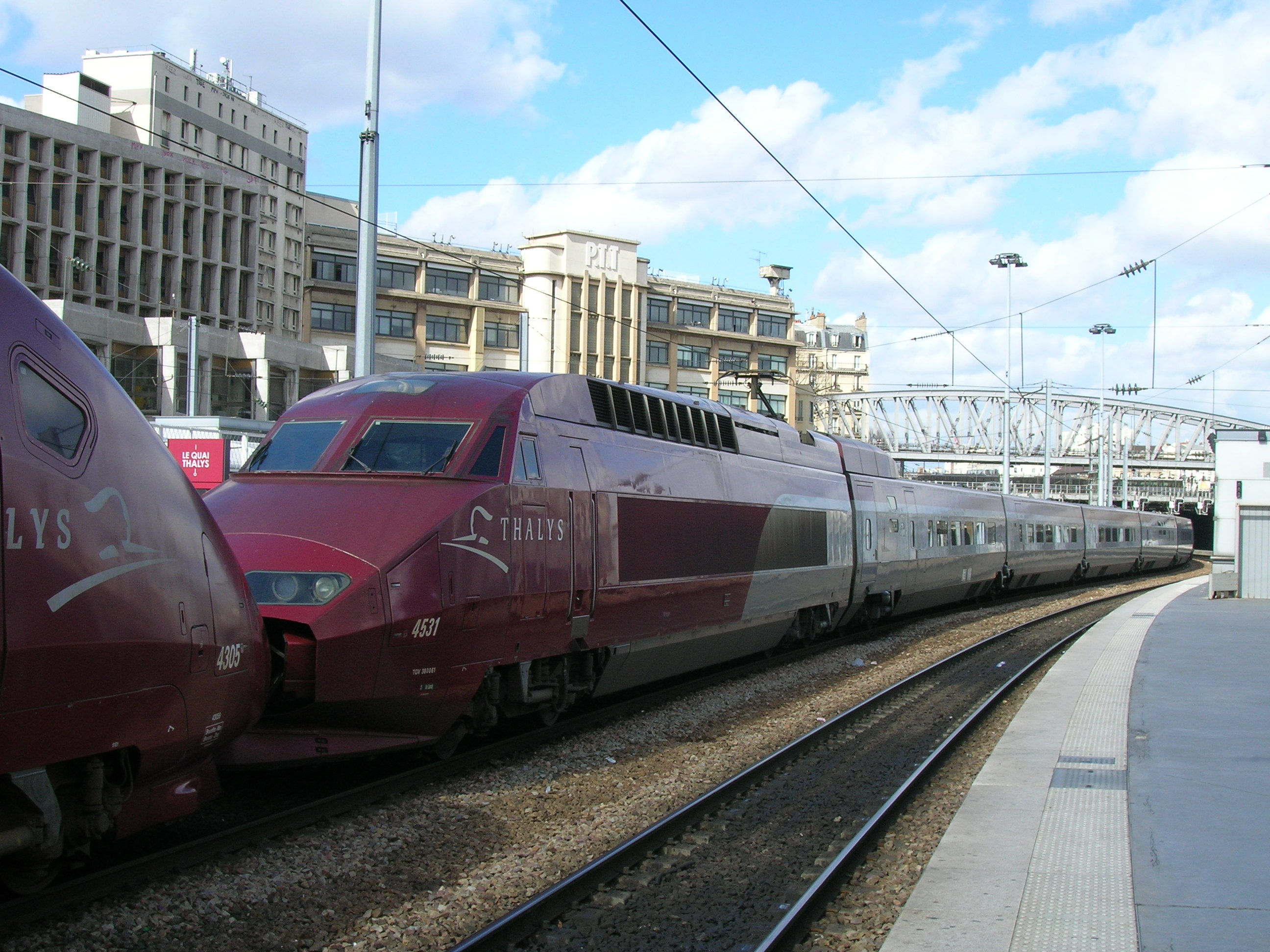 Author : Vincent BABILOTTE Date : 27/03/2006 Place : Paris, Gare du Nord TGV PBA n°4531